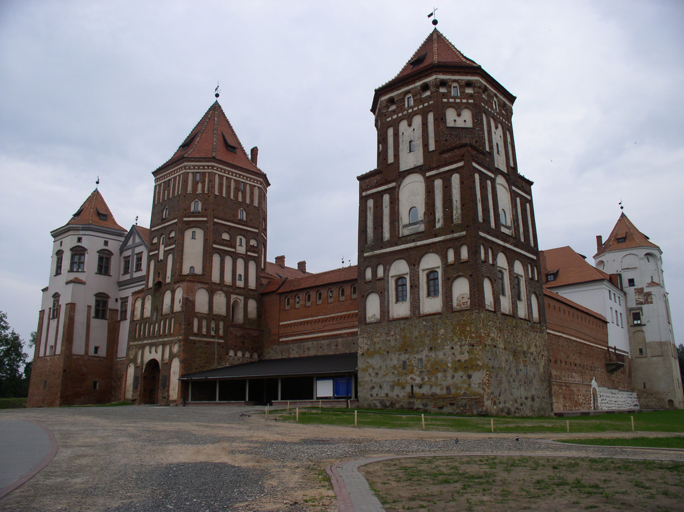 Castle Mir, Belarus.